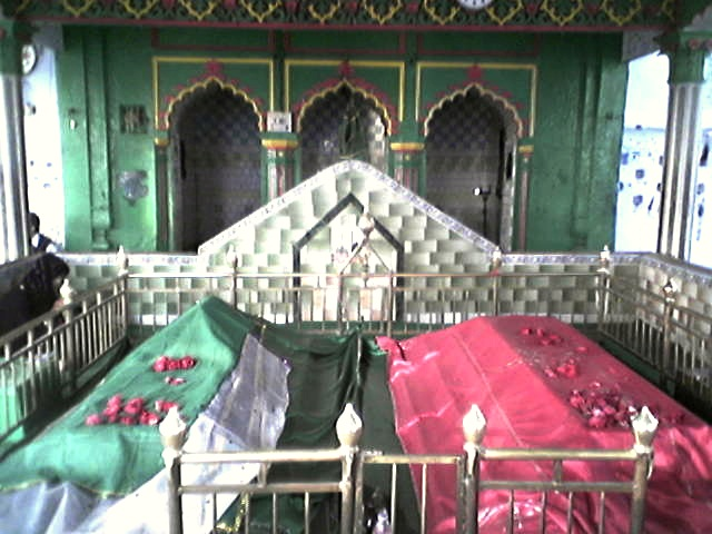 This is the tomb of Syed Husain Sharaf-ud-din Shahvilayat in Amroha, Uttar Pradesh, India.